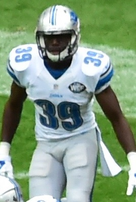 Detroit Lions vs Atlanta Falcons - Wembley 2014